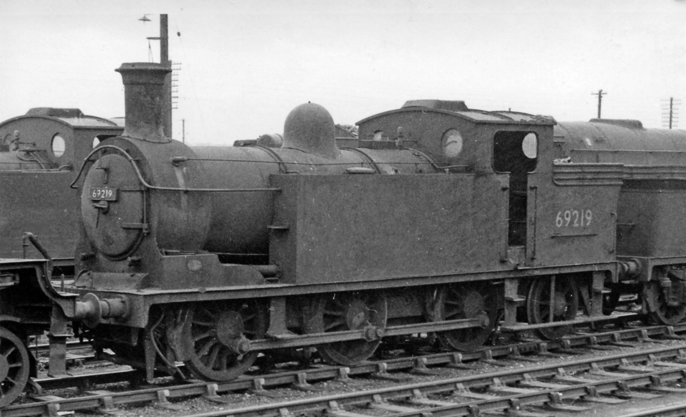 Ex_NBR N15 0-6-2T dumped at Bathgate Locomotive Depot. No. 69219 is one of the NBR Reid standard class A 0-6-2Ts (LNER N15) that were perpetuated after Grouping; it was built in 2/24 as No. 9099, reumbered 9219 in 1946 and withdrawn in 12/61. (See also NS9768 : Condemned ex-NB 0-6-0 dumped with many other locomotive